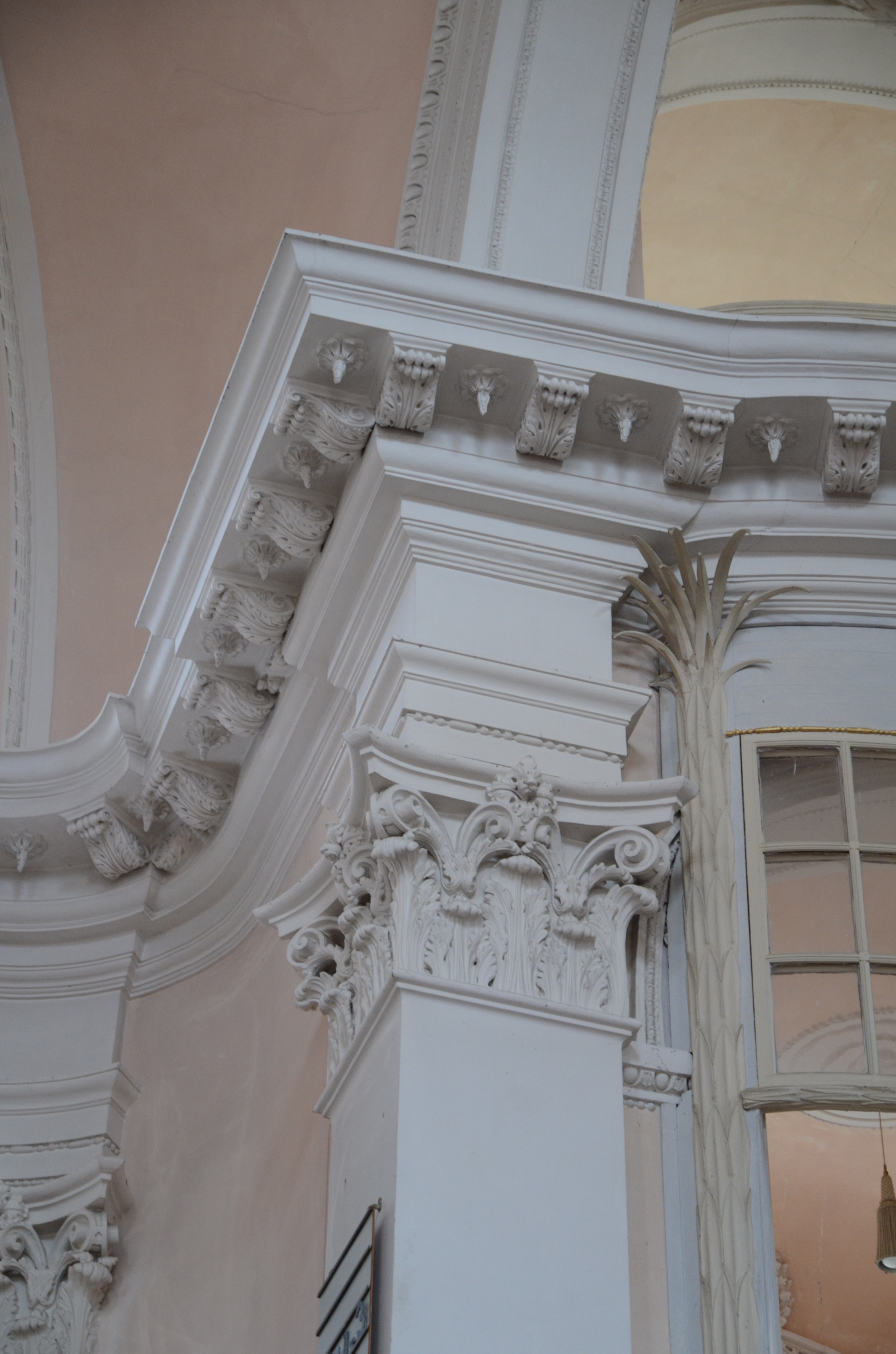 evang.-luth. Kirche St. Johannes in Castell